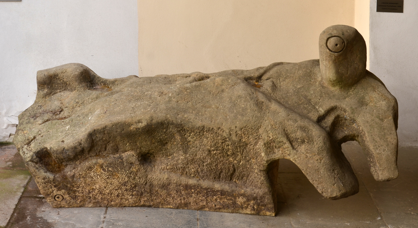 Jan Hendrych, Reclining figure II, sandstone, 1981-2002